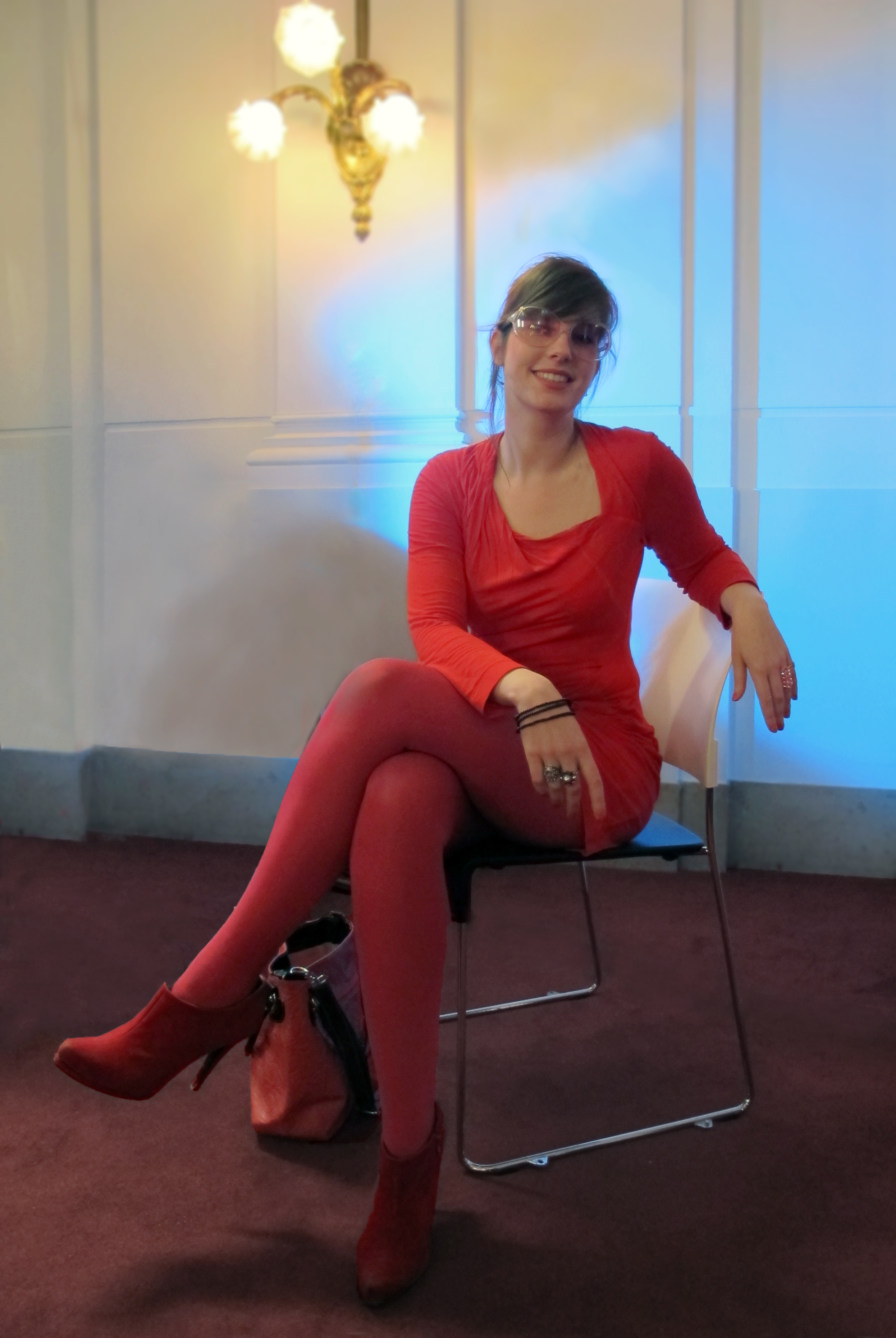 TINKEBELL at TEDxAmsterdam